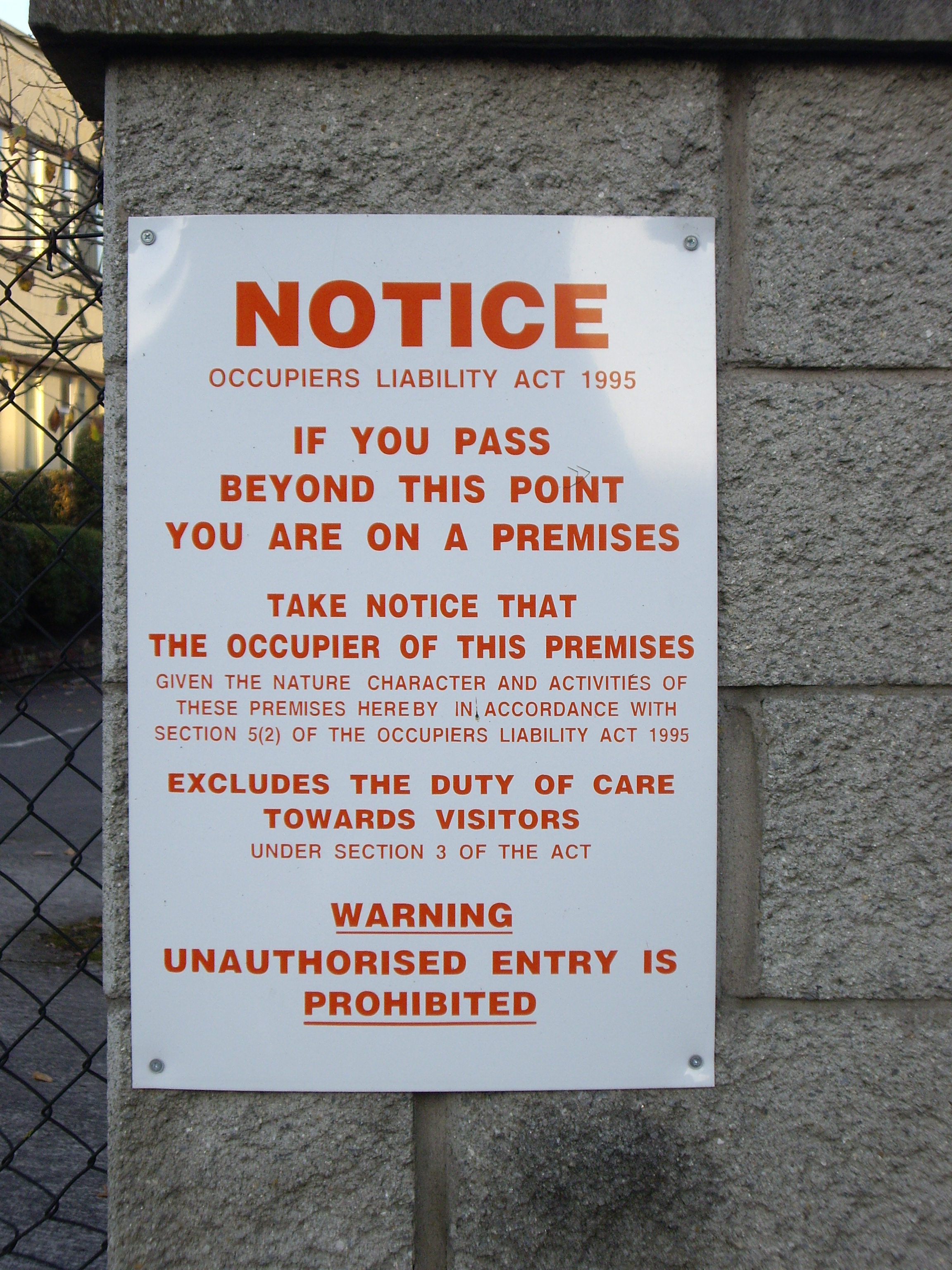 A notice conforming to §5(2)c of the Occupiers' Liability Act, 1995 in Ireland. The notice reads: Notice Occupiers Liability Act 1995 If you pass beyond this point you are on a premises Take notice that the occupier of this premises given the nature character and activities of these premises hereby in accordance with section 5(2) of the Occupiers Liability Act 1995 excludes the duty of care towards visitors under section 3 of the act Warning Unauthorised entry is prohibited